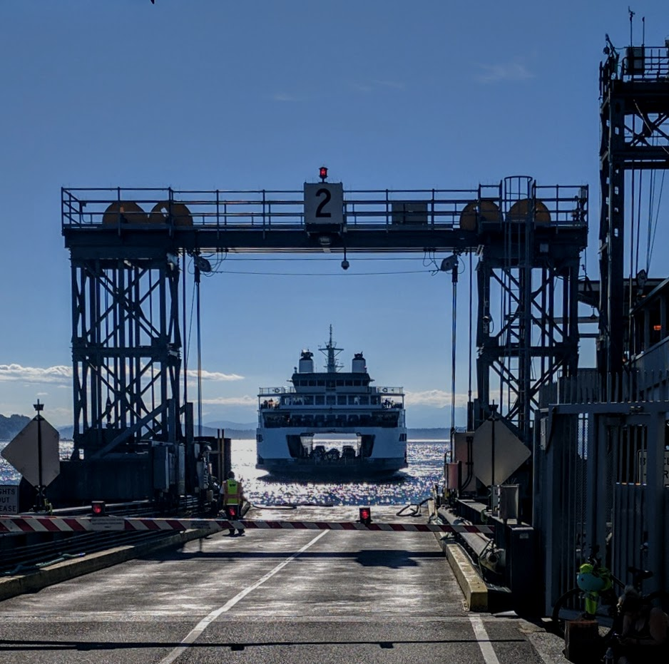 The MV Chimacum, the newest ferry in the WSDOT fleet, arriving at Colman Dock, Seattle, on the route from Bremerton